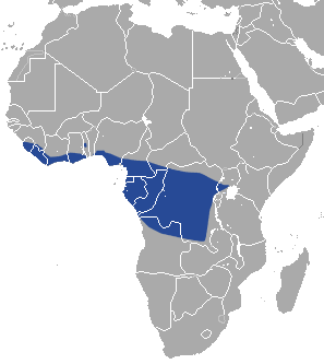 Woermann's Bat (Megaloglossus woermanni) range